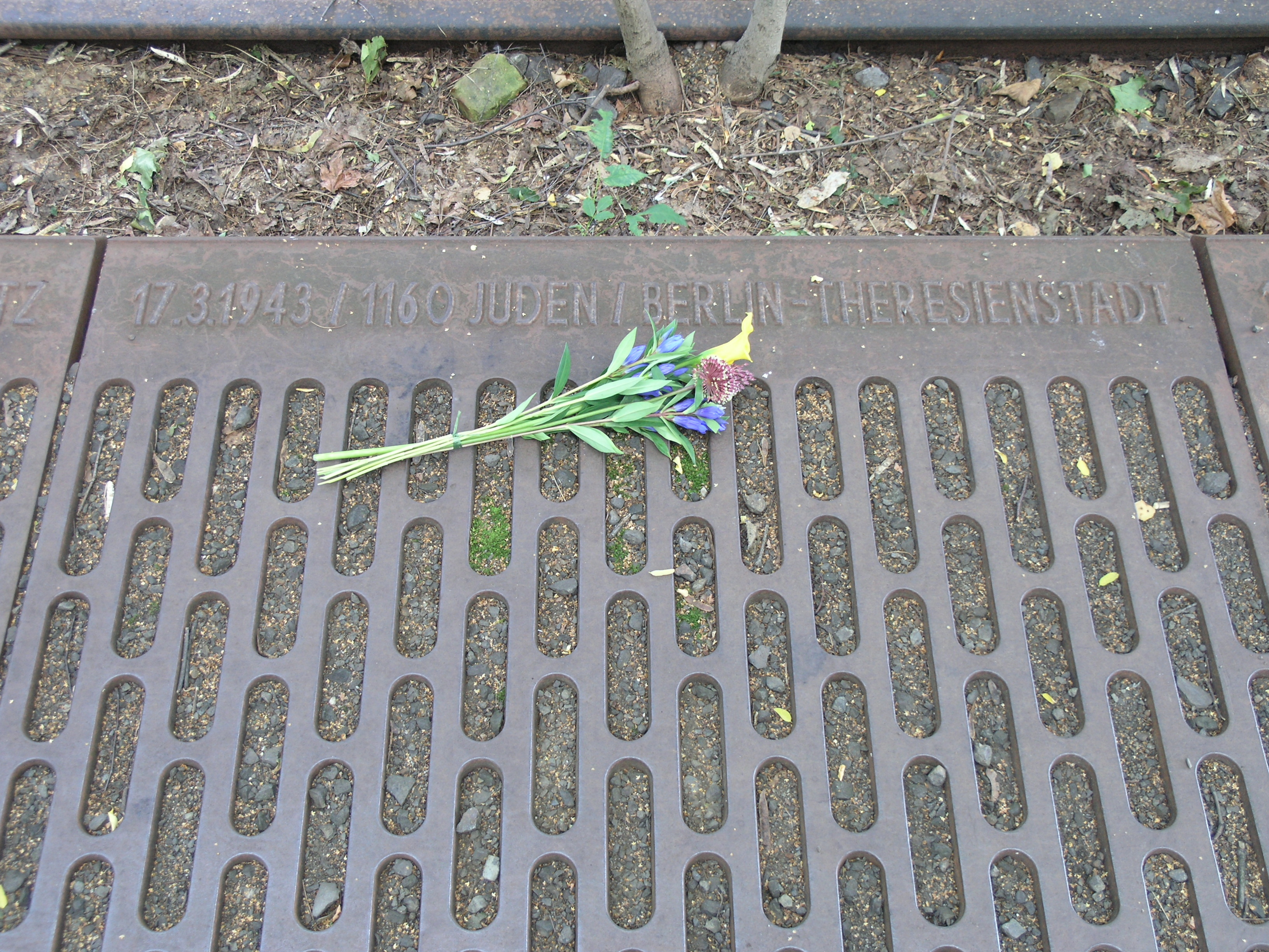 Bahnhof Grunewald Mahnmal Gleis17 - 17.3.1943 Detail